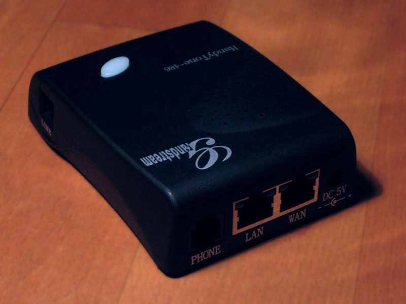 HandyTone 486 Analog Telephone Adaptor